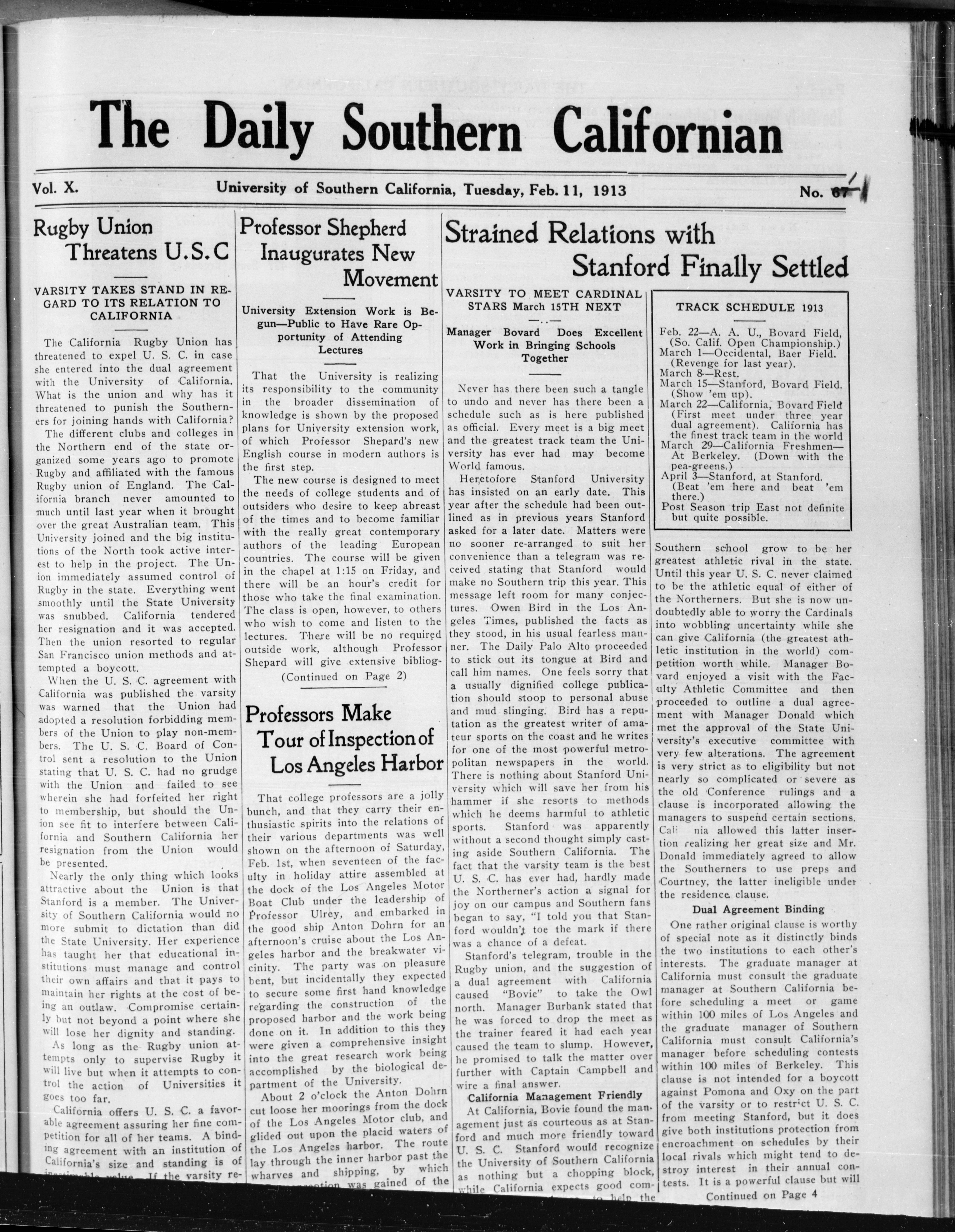 The Daily Southern Californian, Vol. 10, No. 1, February 11, 1913 The Daily Southern Californian, Vol. 10, No. 1, February 11, 1913. Date created: 1913-02-11 Publisher (of the digital version): University of Southern California. Libraries Repository name: University of Southern California University Archives Subject (naf corporate name): University of Southern California Format (aat): newspapers Repository Legacy record ID: uschist-dt-m176593 Rights: University of Southern California Date issued: 1913-02-11 Access conditions: Send requests to address or e-mail given. Phone (213) 821-2366; fax (213) 740-2343. Coverage date: 1913-02-10/1913-02-12 Language: English Repository address: Doheny Memorial Library, Los Angeles, CA 90089-0189 Part of collection: University of Southern California History Collection Place of publication (of the original version): Los Angeles, California Type: images; text Part of subcollection: The Daily Trojan, 1912- Contributing entity: University of Southern California Publisher (of the original version): University of Southern California